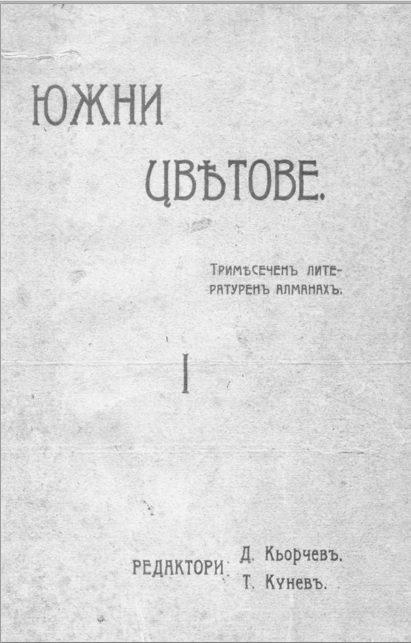 Yuzhni tsvetove (South flowers) magazine, Bulgaria